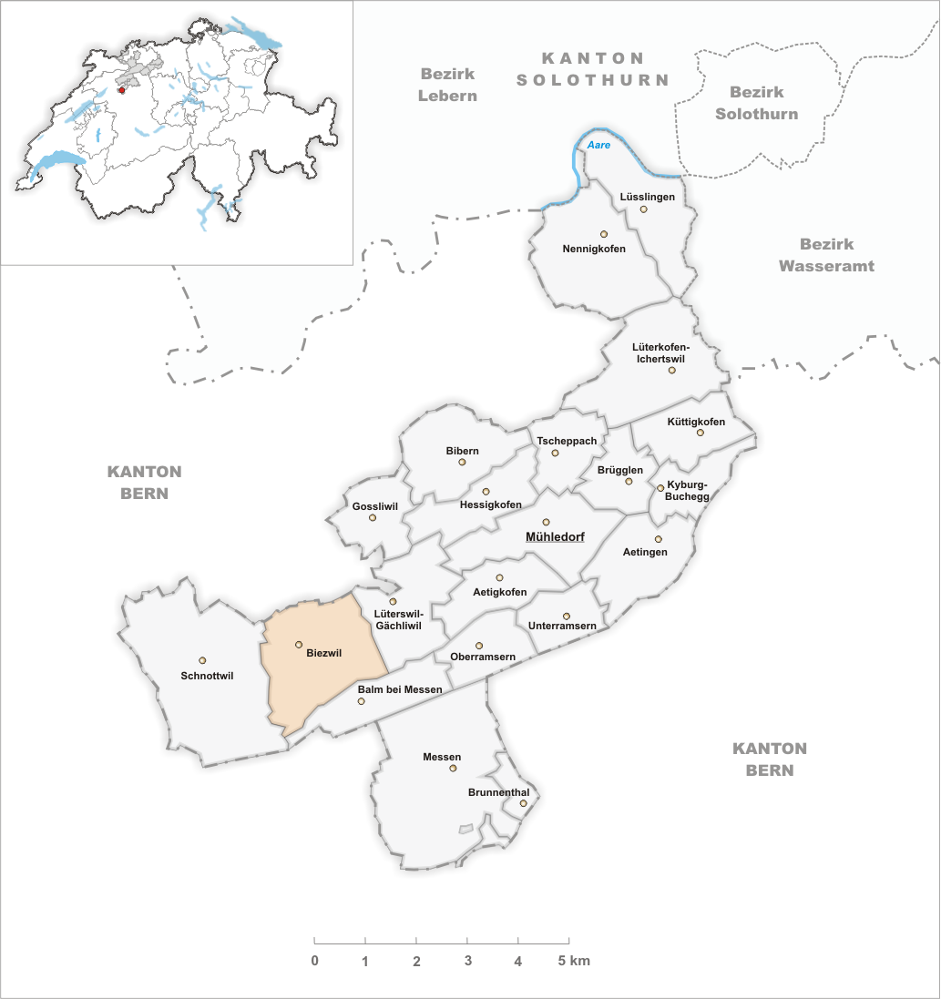 Municipality Biezwil